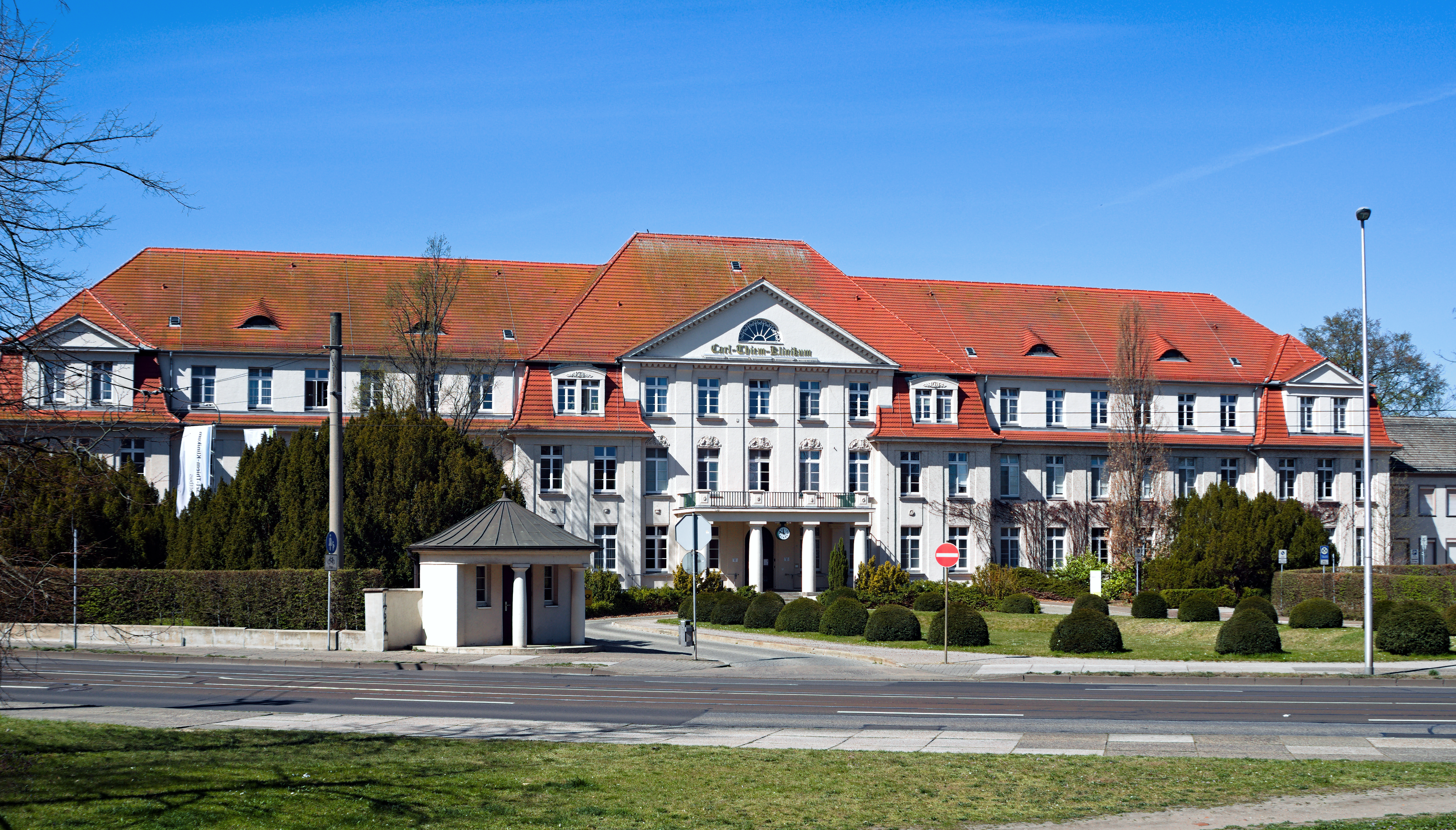 Old main building of Carl-Thiem-Klinikum. This portion of the property has the postal address Thiemstraße 111.